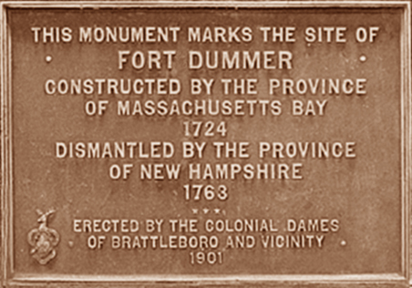 Fort Dummer plaque from an old postcard reads: THIS MONUMENT MARKS THE SITE OF FORT DRUMMER CONSTRUCTED BY THE PROVINCE OF MASSACHUSETTS BAY 1724 DISMANTLED BY THE PROVINCE OF NEW HAMPSHIRE 1763 *** ERECTED BY THE COLONIAL DAMES OF BRATTLEBORO AND VICINITY 1901